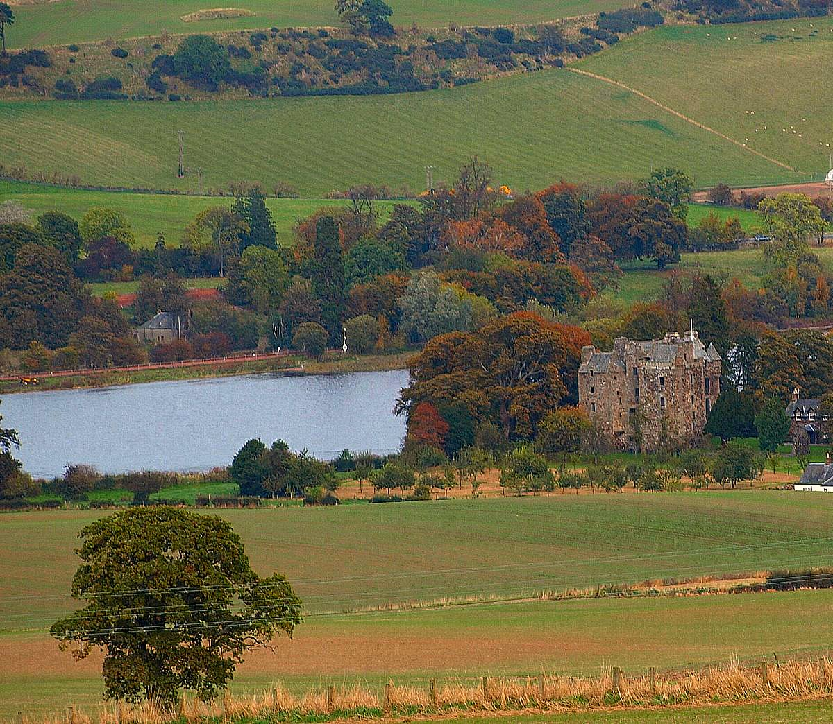 River Tay and Elcho Castle.